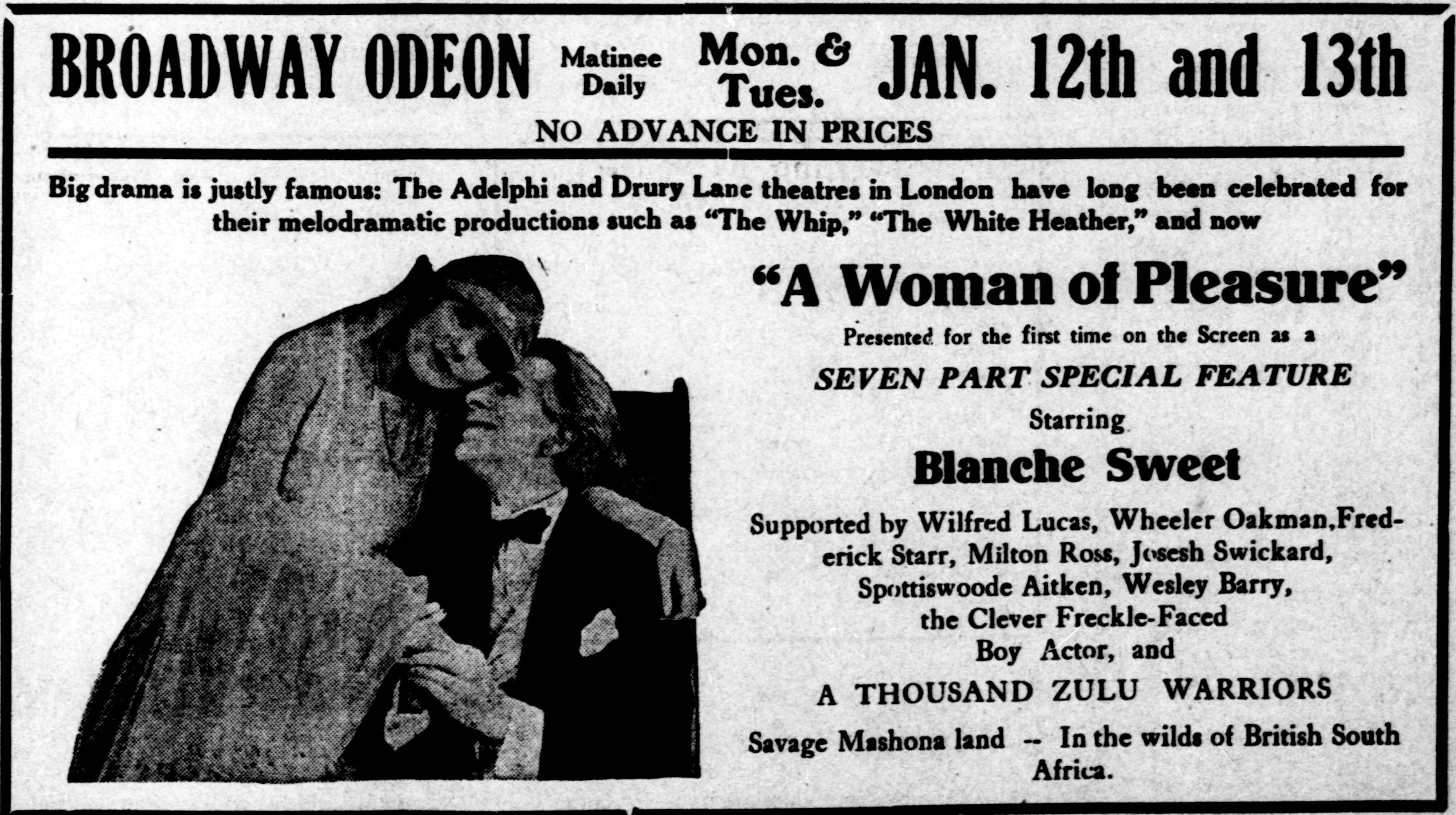 A Woman of Pleasure is a lost 1919 silent film drama directed by Wallace Worsley and starring Blanche Sweet. This is a newspaper advertisement for the film.